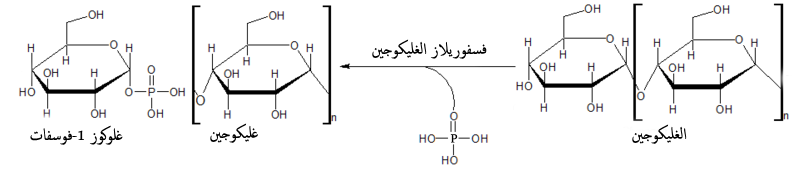 Action of glycogen phosphorylase on glycogen